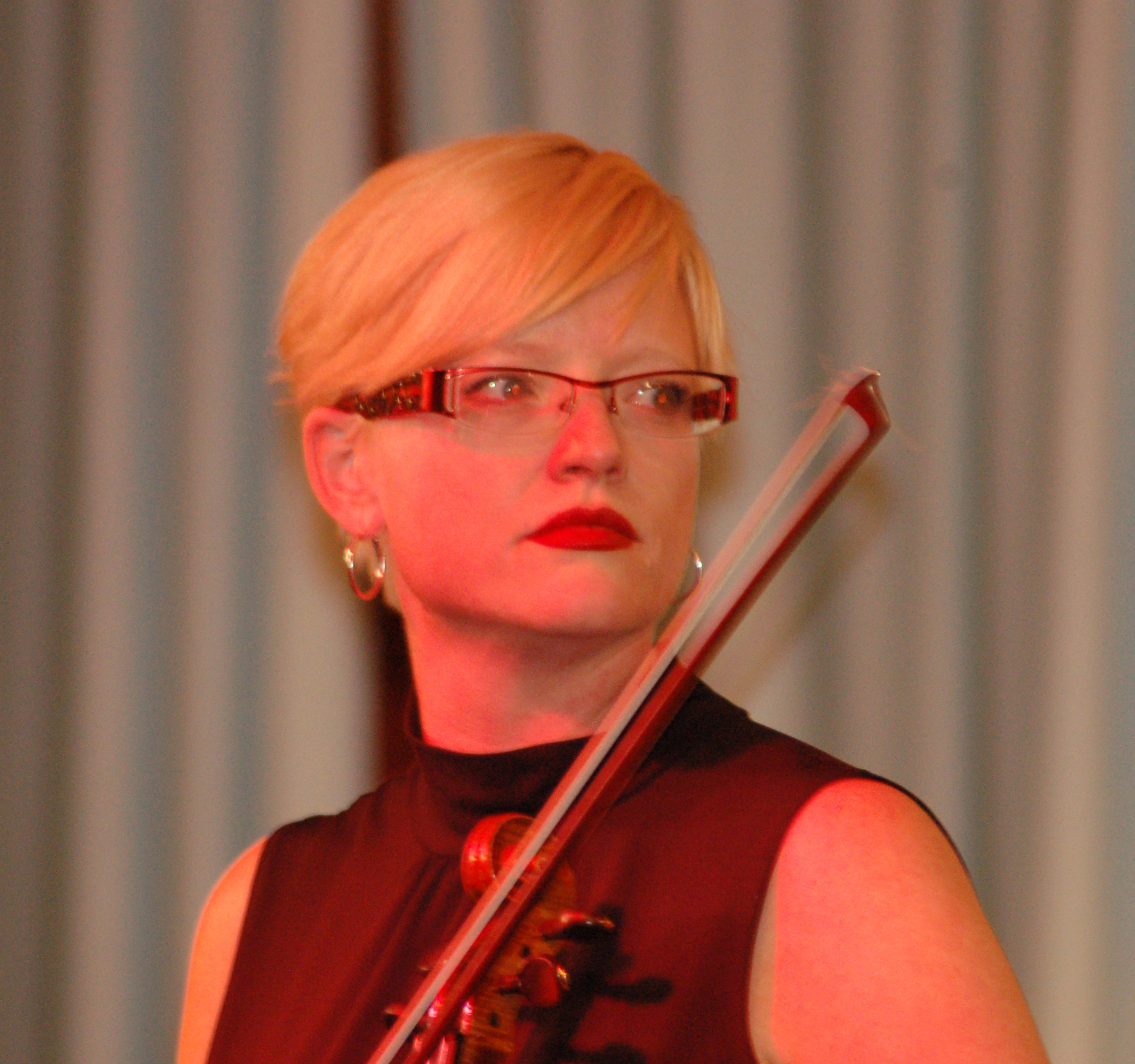 Fiddler Shannon Johnson of the McDades, Edmonton, Alberta. Photographed as the Midwinter Scottish-Irish Festival at the Valley Forge Convention Center, Pennsylvania.